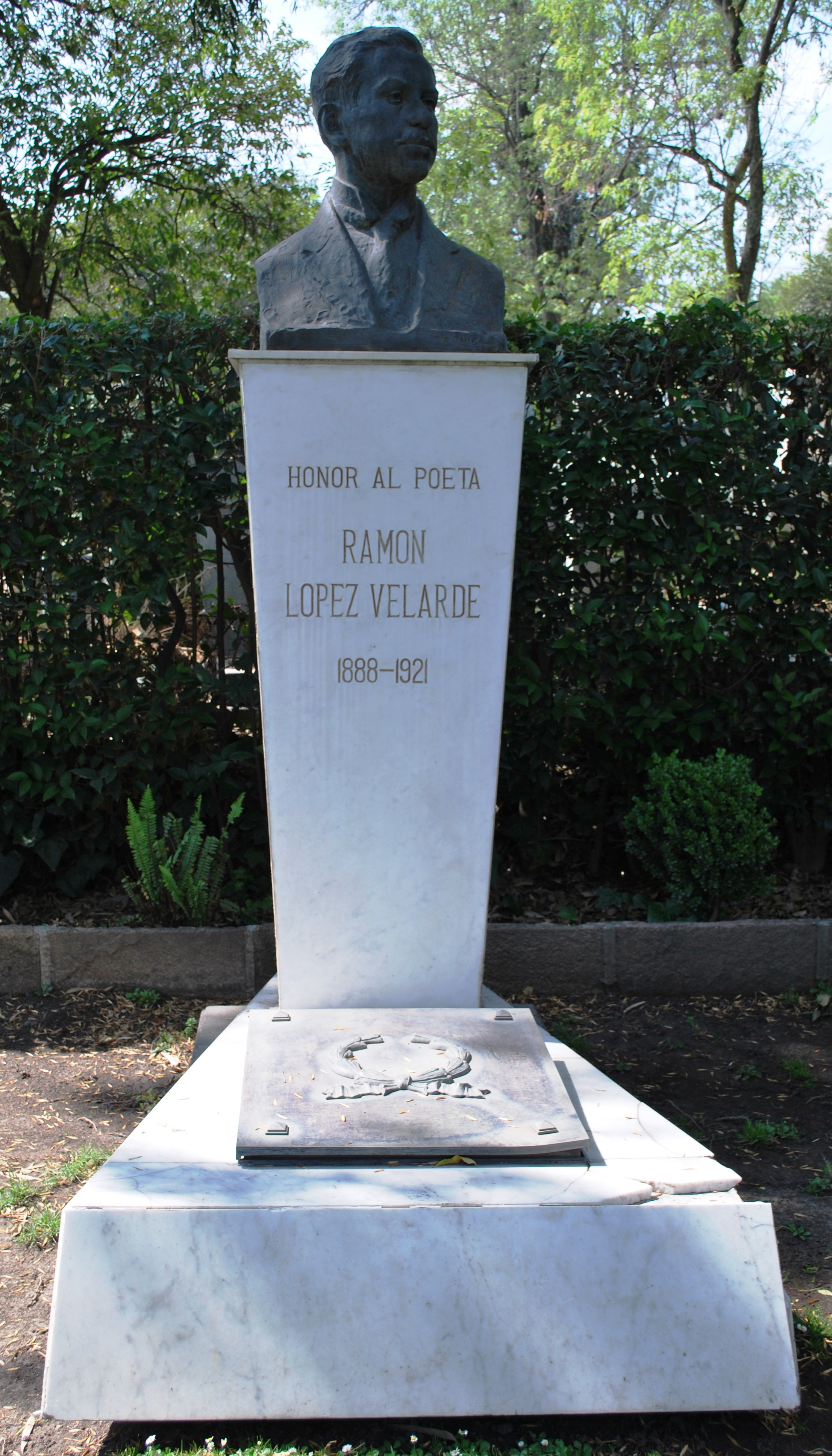 Tomb of Ramon Lopez Velarde in the Panteon Civil de Dolores cemetery in Mexico City